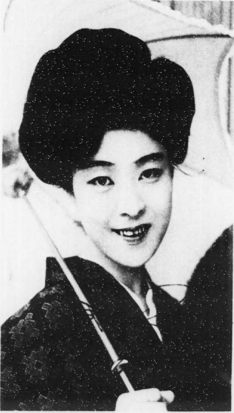 Portrait of the actress Nobuko Satsuki